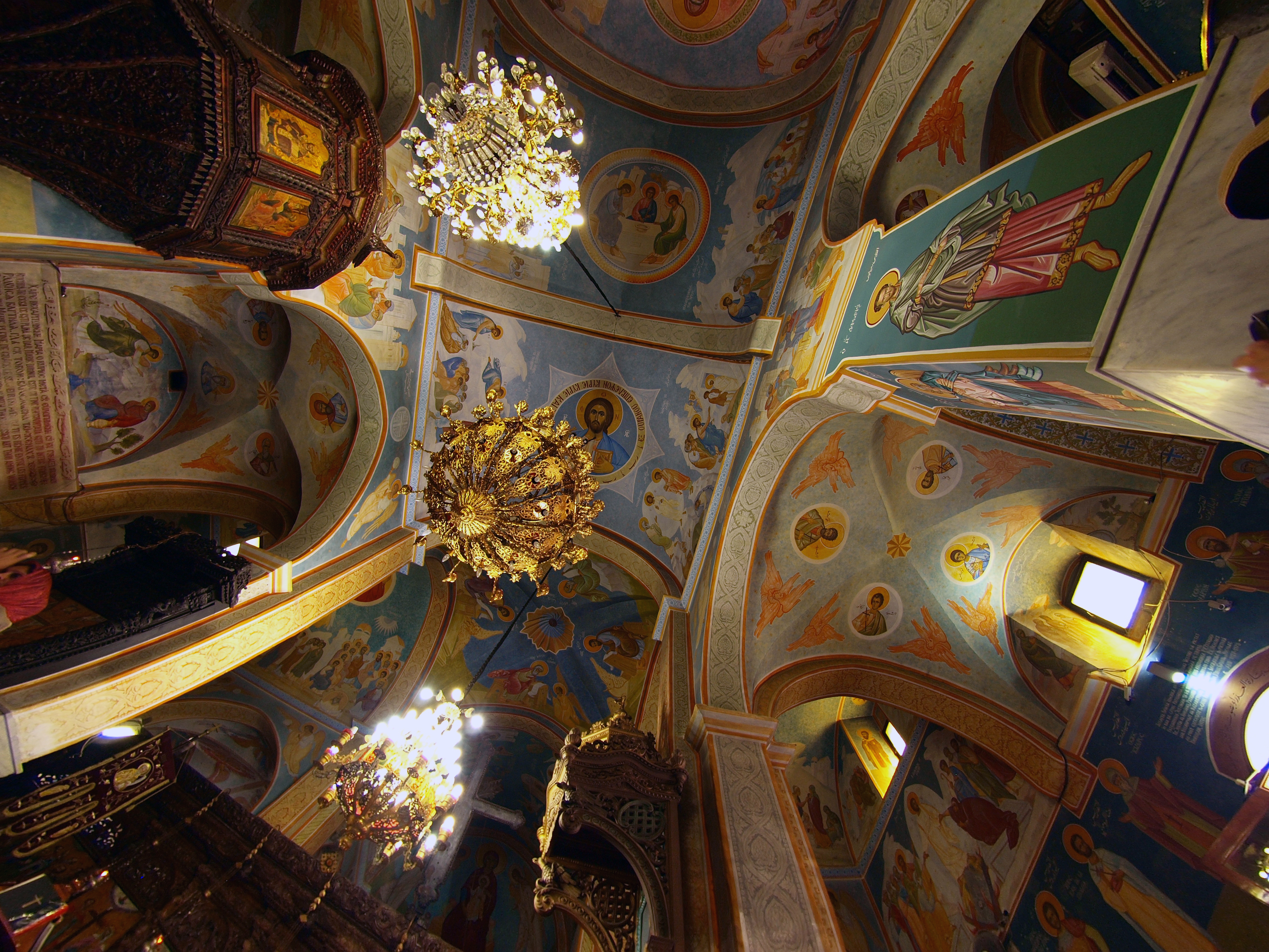 Greek Orthodox Church of the Annunciation, Nazareth, Israel.